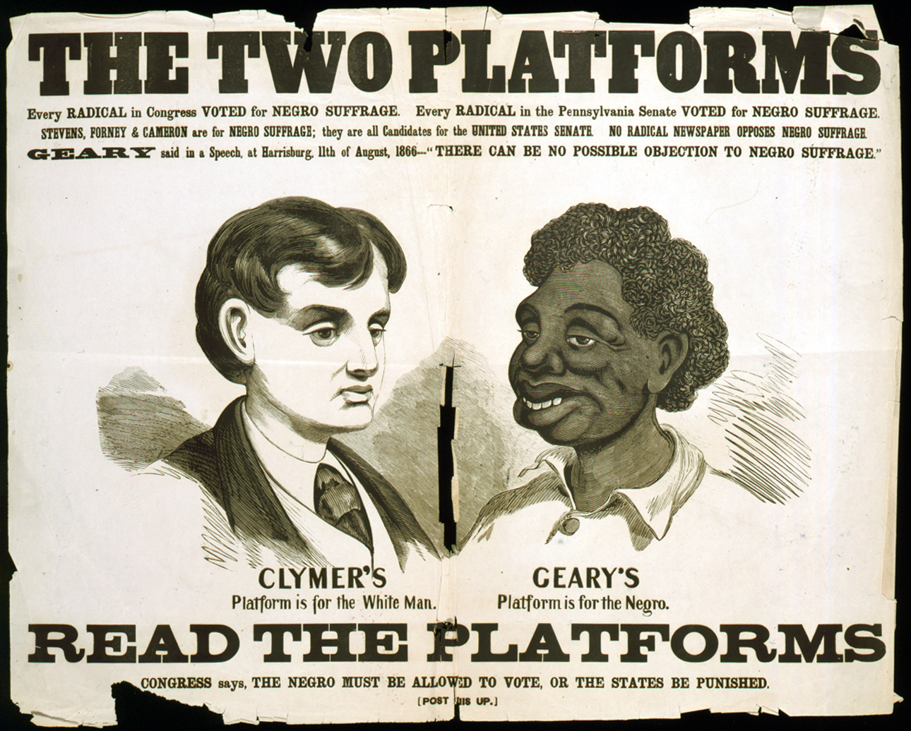 "The two platforms" From a series of racist posters attacking Radical Republican exponents of black suffrage, issued during the 1866 Pennsylvania gubernatorial race. (See "The Constitutional Amendment," no. 1866-5.) The poster specifically characterizes Democratic candidate Hiester Clymer's platform as "for the White Man," represented here by the idealized head of a young man. (Clymer ran on a white-supremacy platform.) In contrast a stereotyped black head represents Clymer's opponent James White Geary's platform, "for the Negro." Below the portraits are the words, "Read the platforms. Congress says, The Negro must be allowed to vote, or the states be punished." Above is an explanation: "Every Radical in Congress Voted for Negro Suffrage. Every Radical in the Pennsylvania Senate Voted for Negro Suffrage. Stevens [Pennsylvania Representative Thaddeus Stevens], Forney [John W. Forney, editor of the " Philadelphia Press":], and Cameron [Pennsylvania Republican boss Simon Cameron] are for Negro Suffrage; they are all Candidates for the United States Senate. No Radical Newspaper Opposes Negro Suffrage. "Geary" said in a Speech at Harrisburg, 11th of August, 1866--"There Can Be No Possible Objection to Negro Suffrage." 1 print : woodcut with letterpress on wove paper ; 44.4 x 57.2 cm (image)